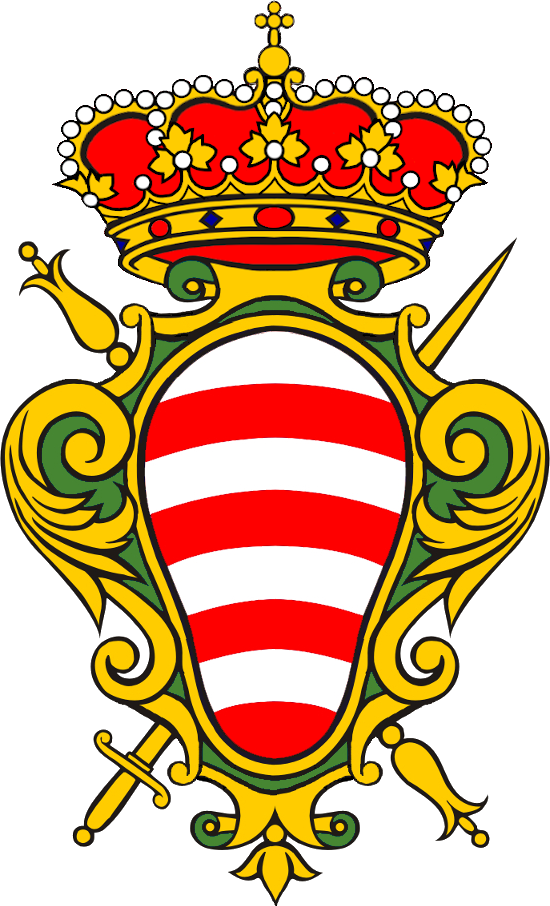 Coat of arms of the Ragusan Republic - variant with white bars Srpskohrvatski / српскохрватски: Grb Dubrovačke Republike - varijanta s bijelim gredama